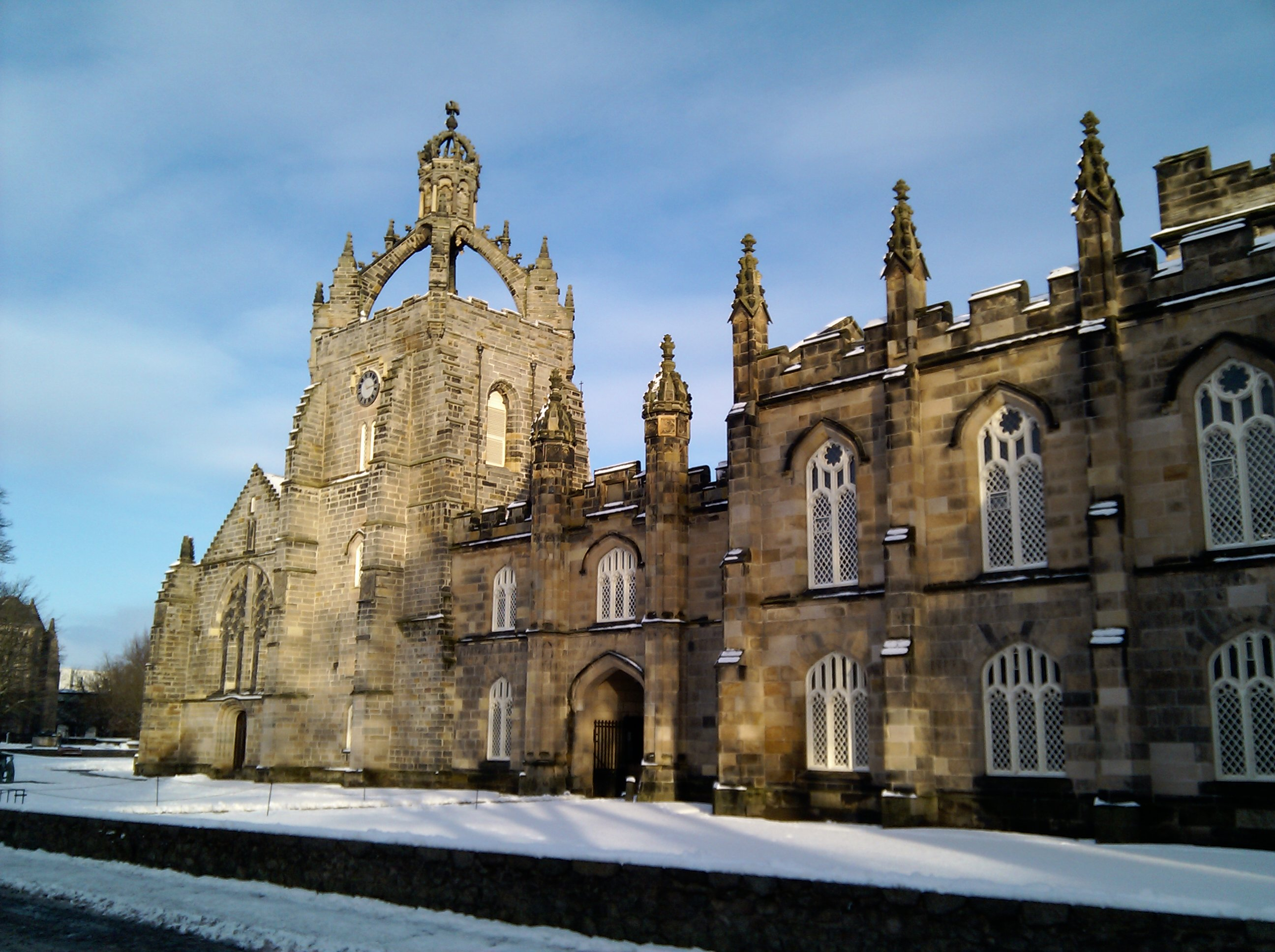 Posted via email from nick-b's posterous